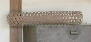 Korean "bamboo wife" as seen in the Korean Folk Village